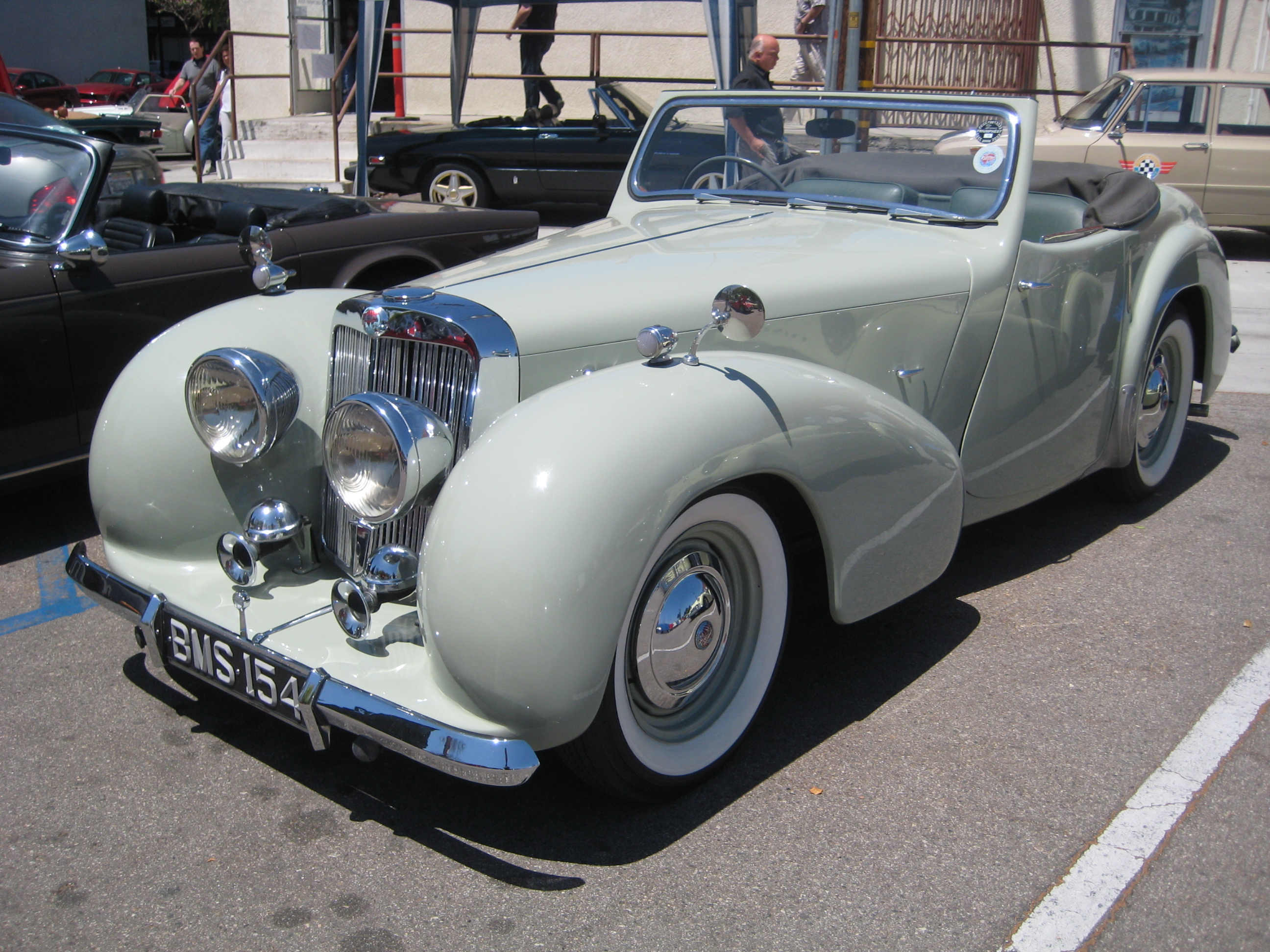 Came across this 1948 Triumph roadster at a classic Triumph car show in Burbank.